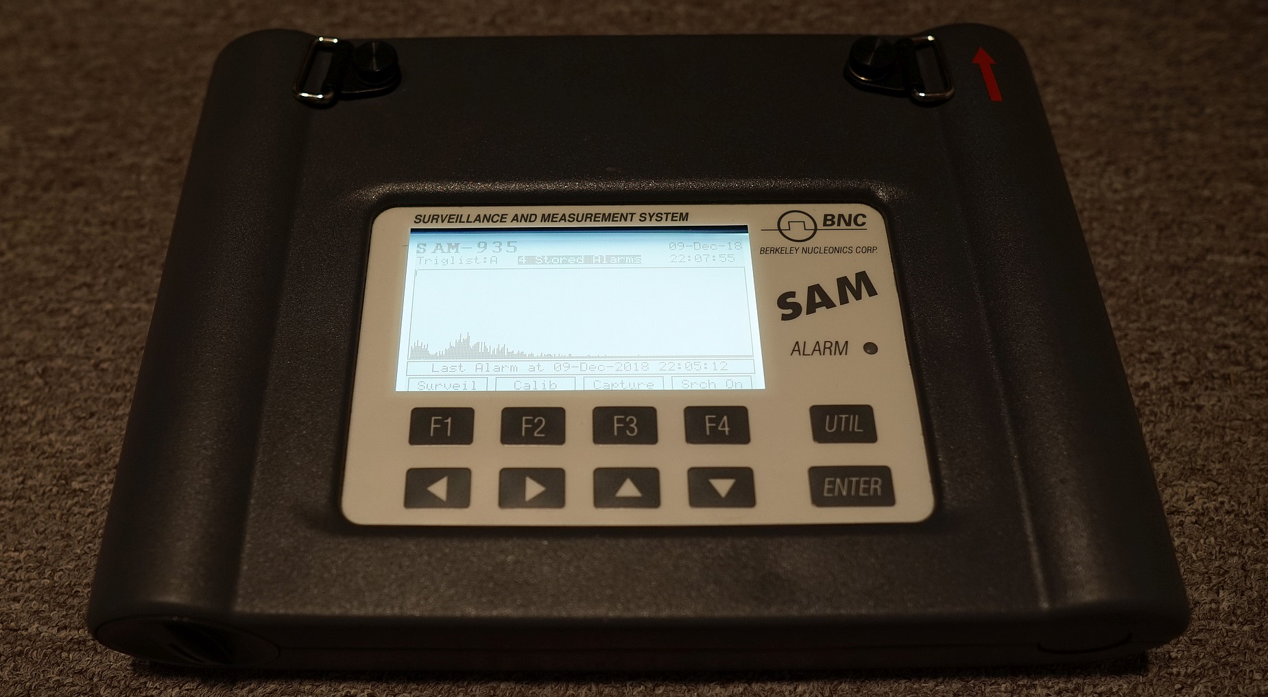 portable Gamma Spectroscopy System BNC SAM-935 for Isotope identification